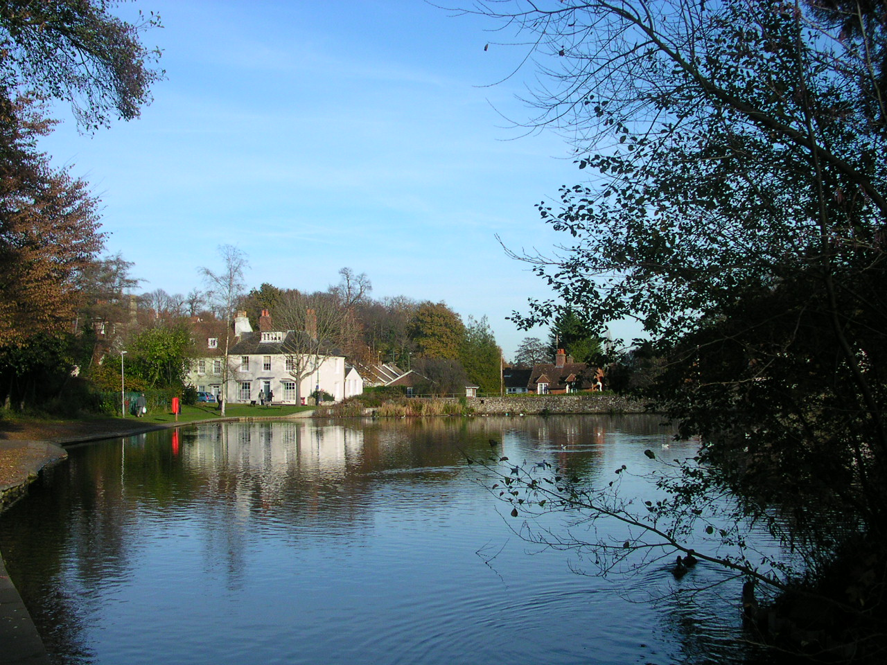 South Pond, Midhurst, West Sussex, England.